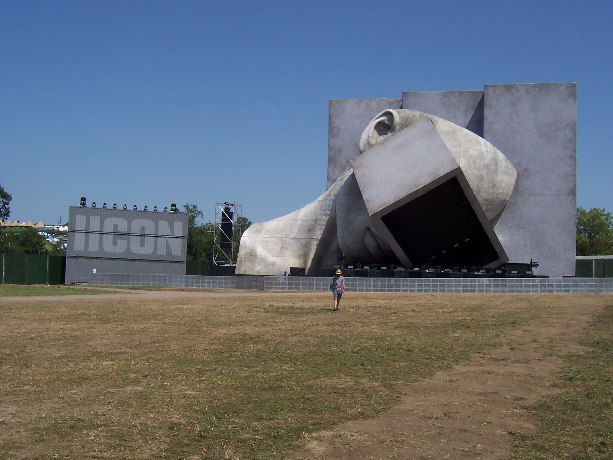 The IICON arena in Block9 East in the South East Corner at Glastonbury Festival 2019